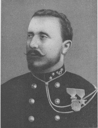 Photo of Paul Le Marinel, from the Encyclopédie du Congo belge. Titre : Encyclopédie du Congo belge Éditeur : éditions Bieleveld (Bruxelles) Type : monographie imprimée Langue : Français Format : In-4° Format : application/pdf Droits : domaine public Identifiant : ark:/12148/bpt6k6203014n Source : Bibliothèque nationale de France, département Philosophie, histoire, sciences de l'homme, 4-O3M-210 Relation : Provenance : bnf.fr Date de mise en ligne : 30/07/2012